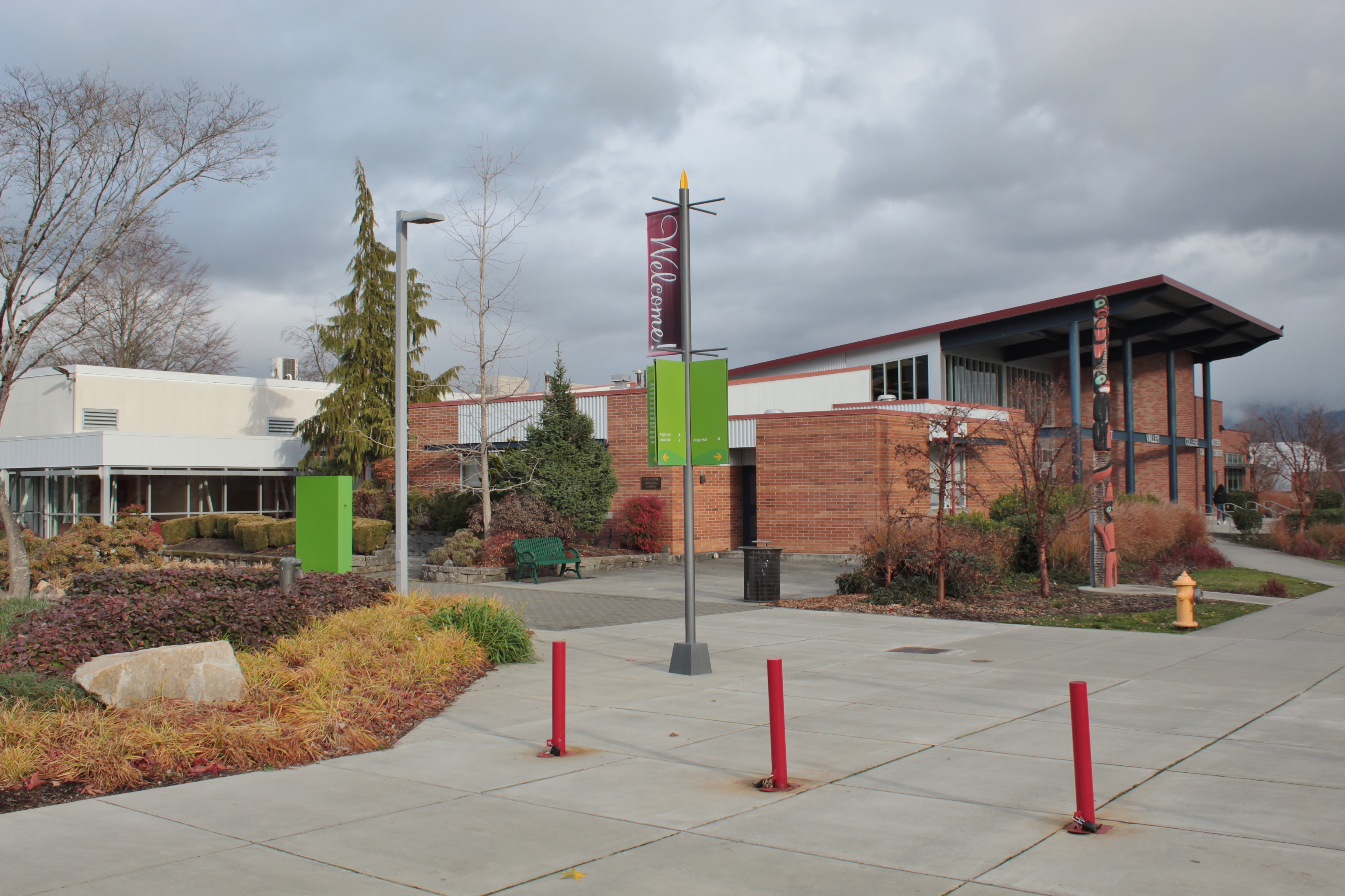 The Cardinal Building on the campus of Skagit Valley College in Mount Vernon, Washington.